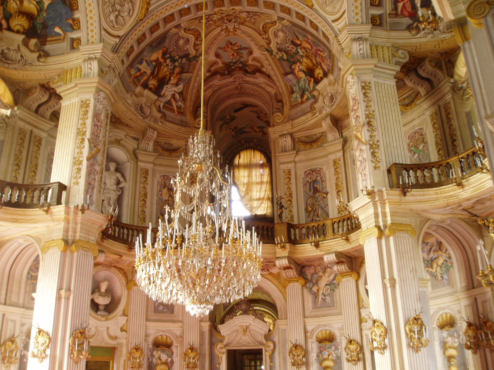 Central Hall on the top floor of the Palazzina di caccia of Stupinigi.